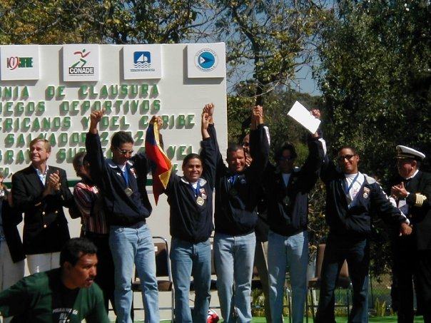 Gold Medal, Class J / 24 Games Central American and Caribbean 2001